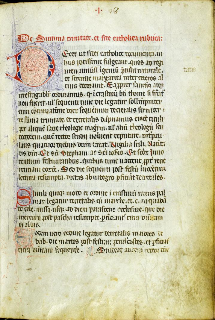 Page 28 of the "llibre de les Quatre Claus", with the statutes of the university of Perpignan (XIVth century)